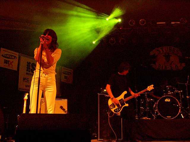 A photo of the The Fiery Furnaces in concert.